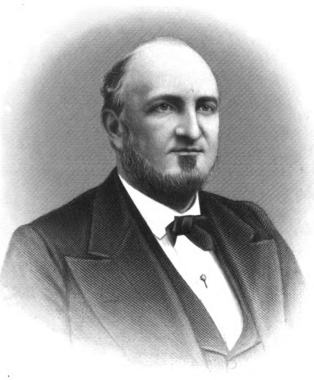 Benjamin Platt Carpenter, Montana Territorial Governor